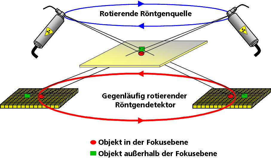 Schematic representation of a rotational Laminography setup.